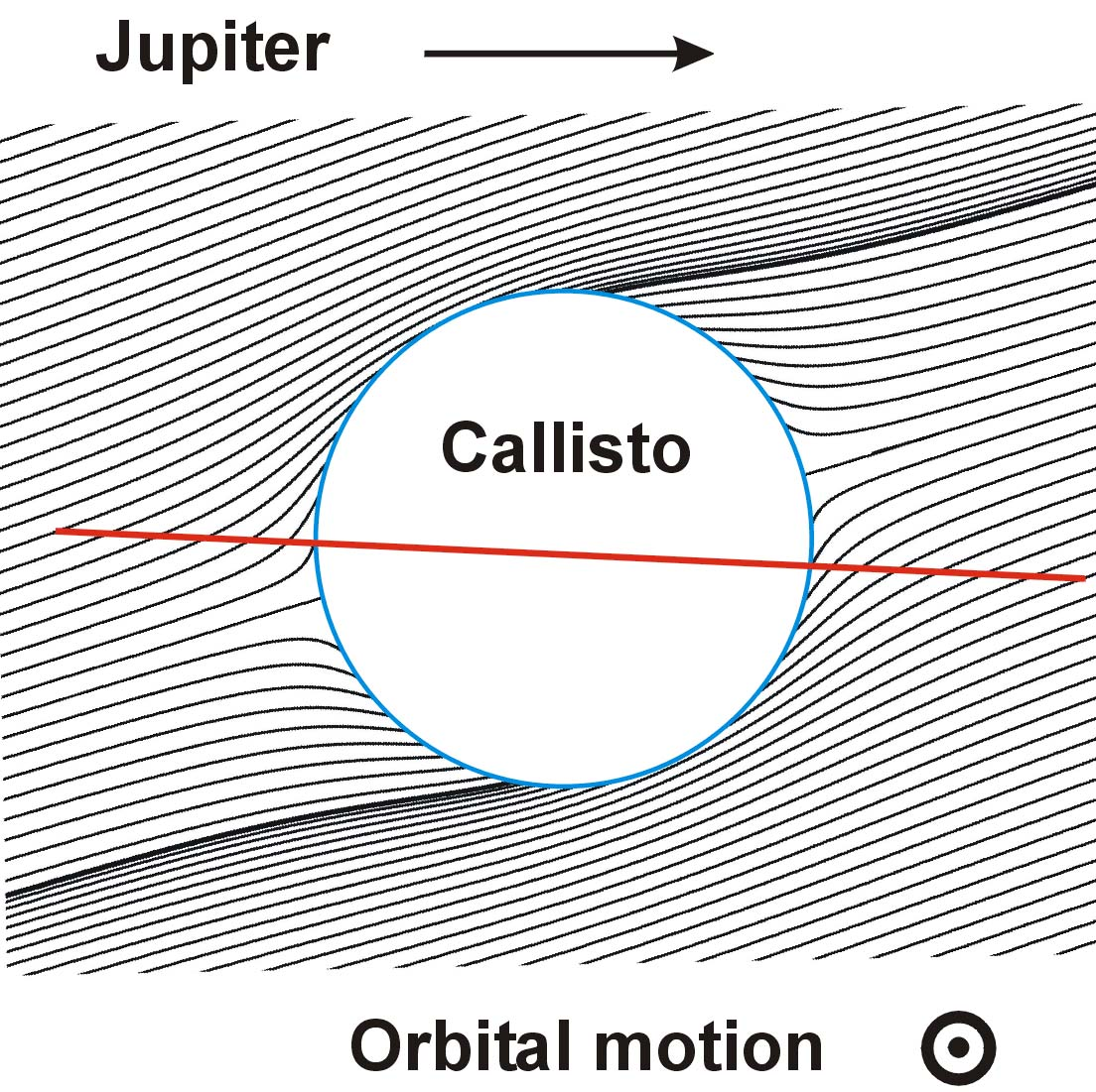 The image depicts magnetic field around Jovian moon Callisto. The field consists of the Jovian stationary field, Jovian varying field and Callisto induced field. The bending of the field lines around Callisto is evident, indicating an existence of an electrically conducting layer in the interior of the moon. The field lines shown in the image were calculated based on the magnetic field data available from the scientific literature.[1][2] The red line shows a trajectory of the Galileo spacecraft during a typical flyby (C3 or C10). This image was created for the Callisto article. ↑ Zimmer, C.; Khurana, K. K. (2000). "Subsurface Oceans on Europa and Callisto: Constraints from Galileo Magnetometer Observations". Icarus 147: 329–347. ↑ Kilveson, M.G.; Khurana, K.K.;Stevenson, D.J. (1999). "Europa and Callisto: Induced and intrinsic fields in a periodically varying plasma environment". J. of Geophys. Res. 104: 4609-4625.